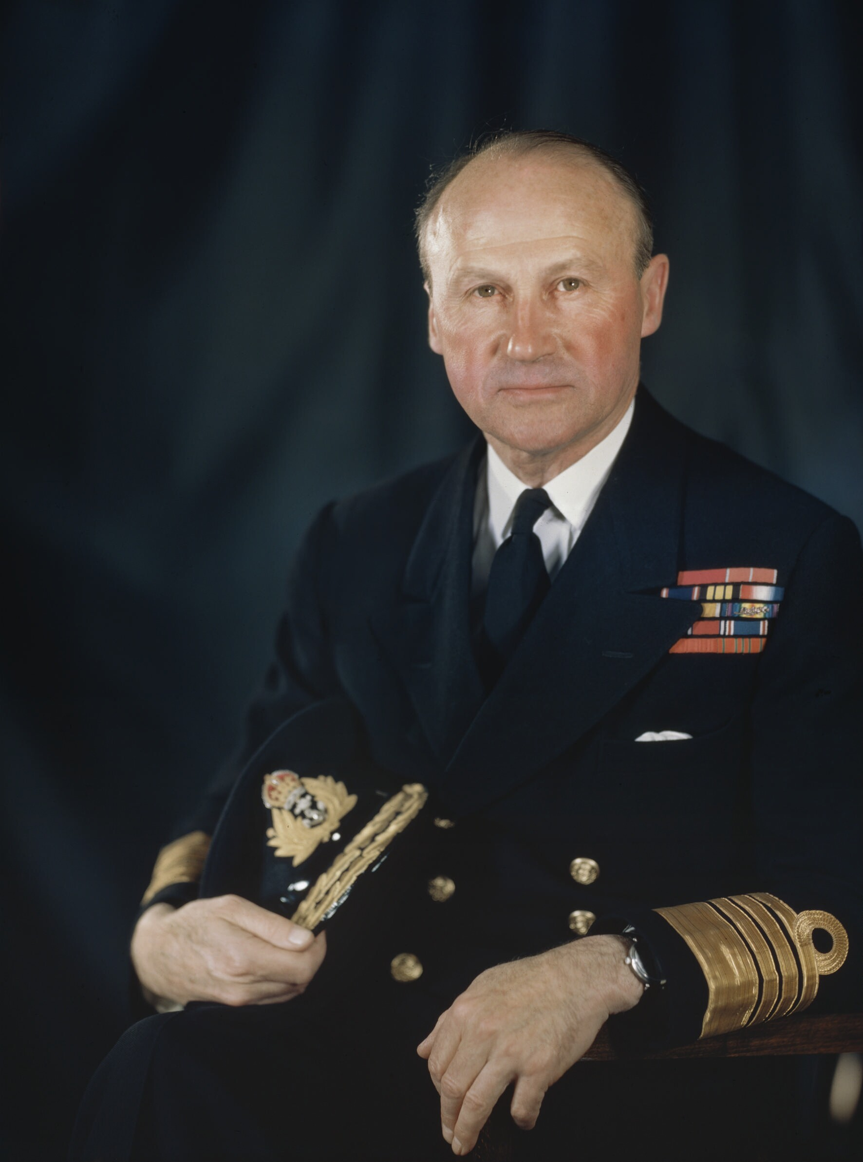 The Royal Navy during the Second World War- Personalities Half length portrait of Admiral Sir Bertram Ramsay, Naval Commander in Chief of the Allied Expeditionary Forces.